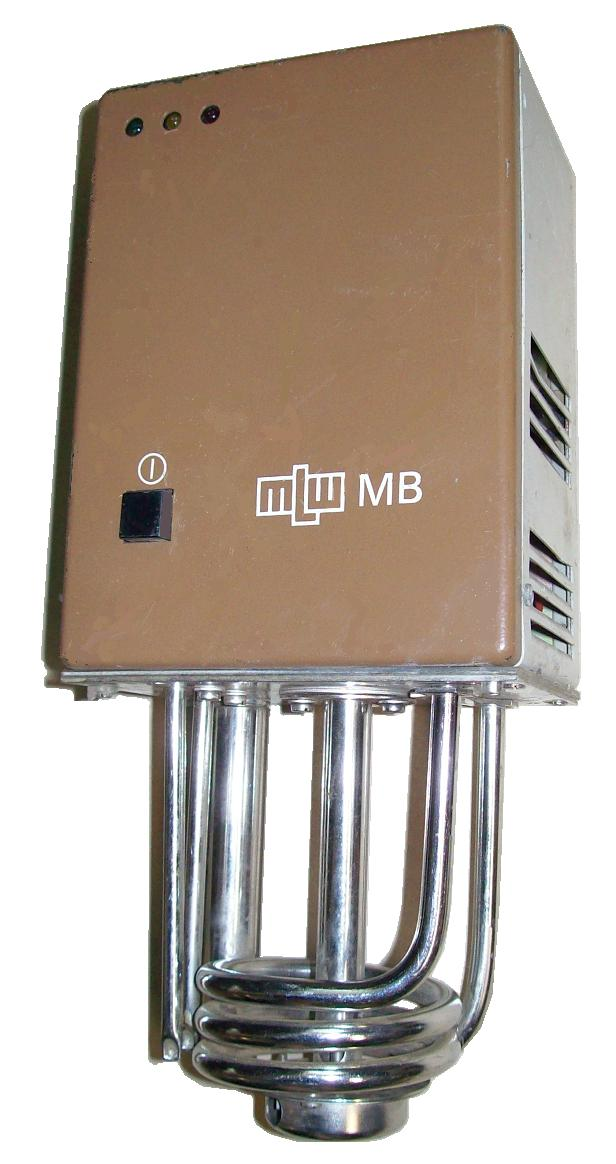 thermostat for laboratory use